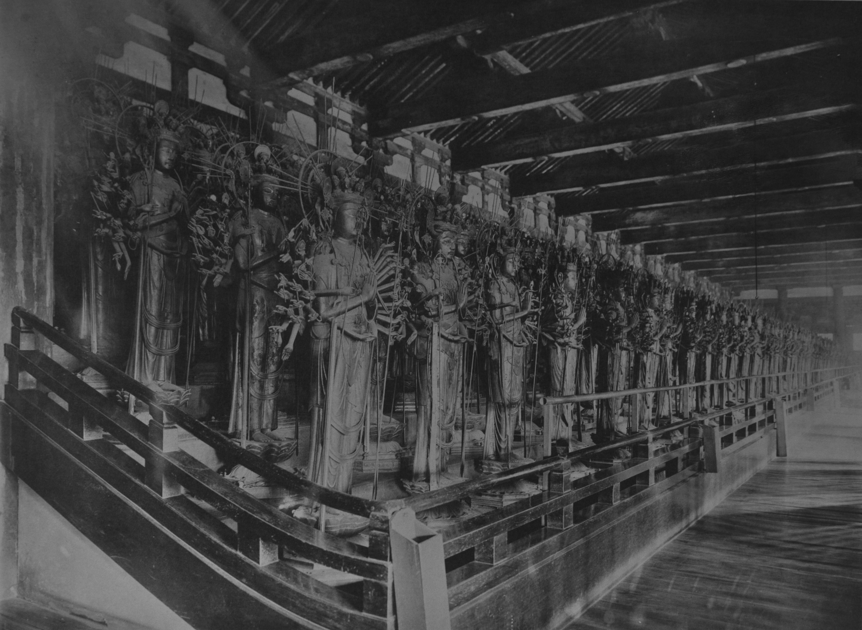 Sanjusangendo, Kyoto, Japan